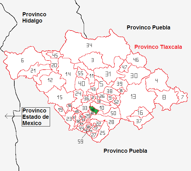 locator map Tlaxcala